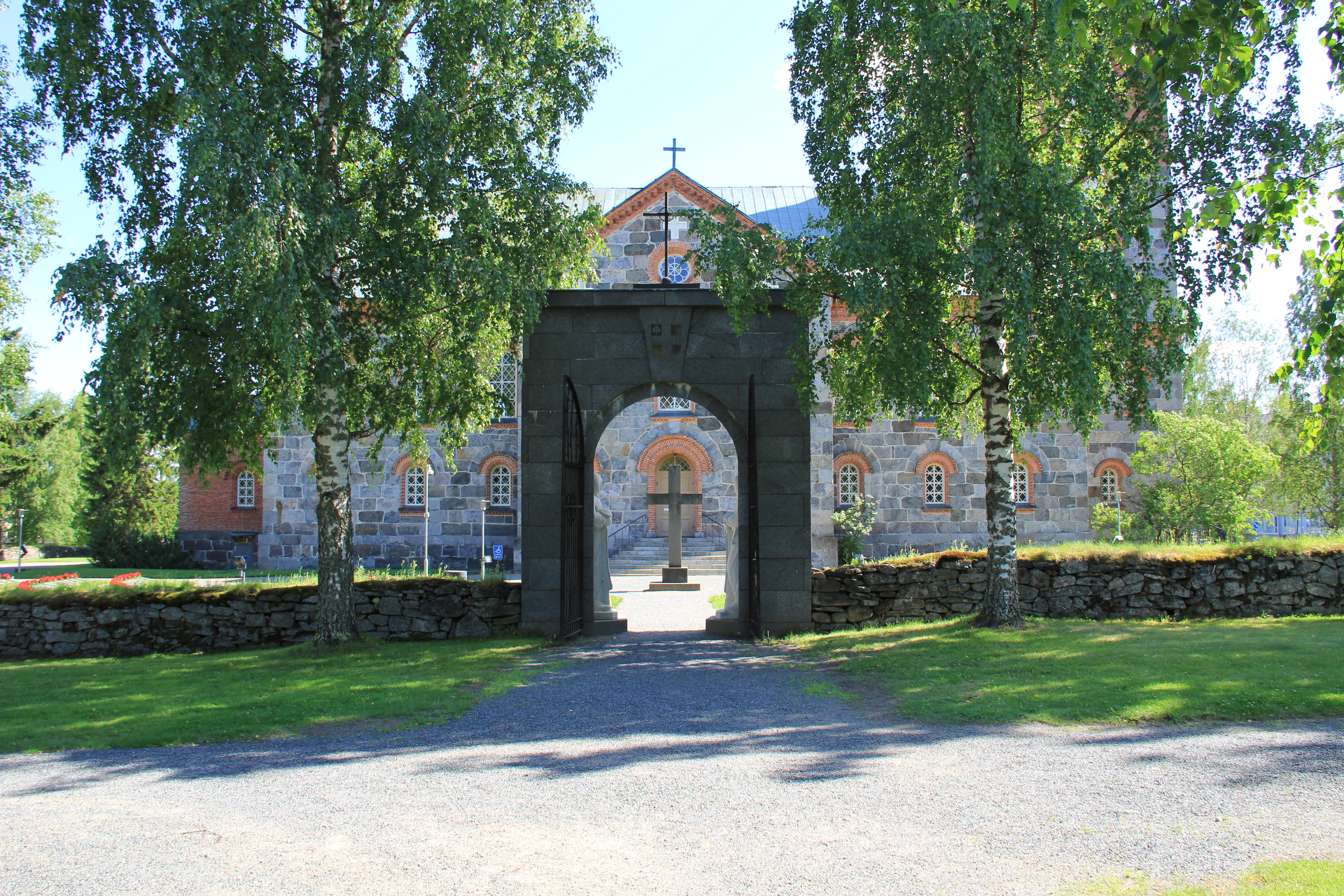 Juva church, Juva, Finland. - Stone church, designed by architects Ernst Lohrmann and Carl Albert Edelfelt. Completed in 1863. - Church seen outside the churchyard stone wall. Stone gate and statues designed by (father) Ilmari and (son) Tapio Wikkala as WWII grave memorial.